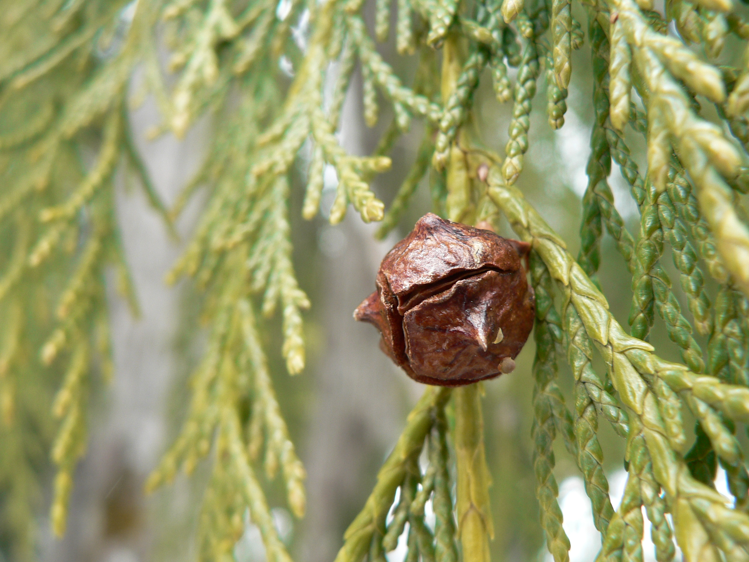 Nootka Cypress, Yellow Cypress, Alaska Cypress; female cone